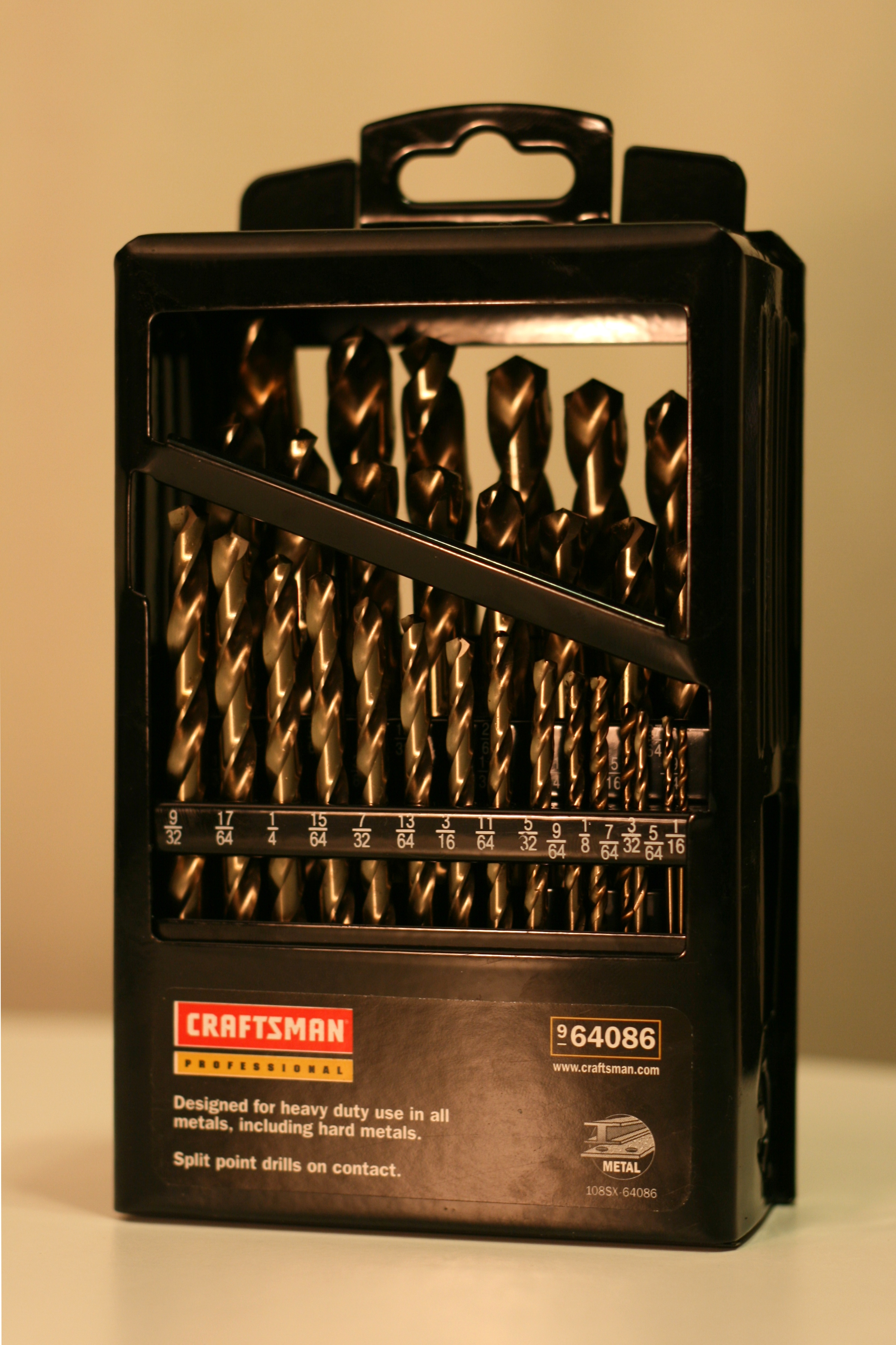 A set of Craftsman Professional cobalt steel alloy drill bits in fractional-inch sizes.